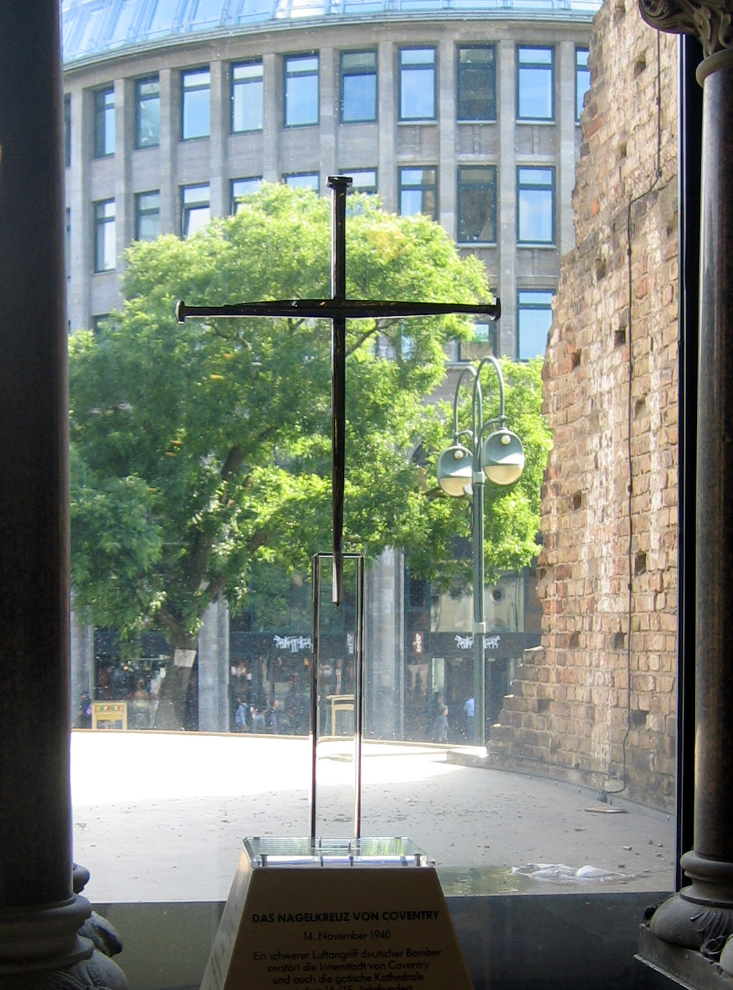 Photograph of the cross made of nails from Coventry Cathedral